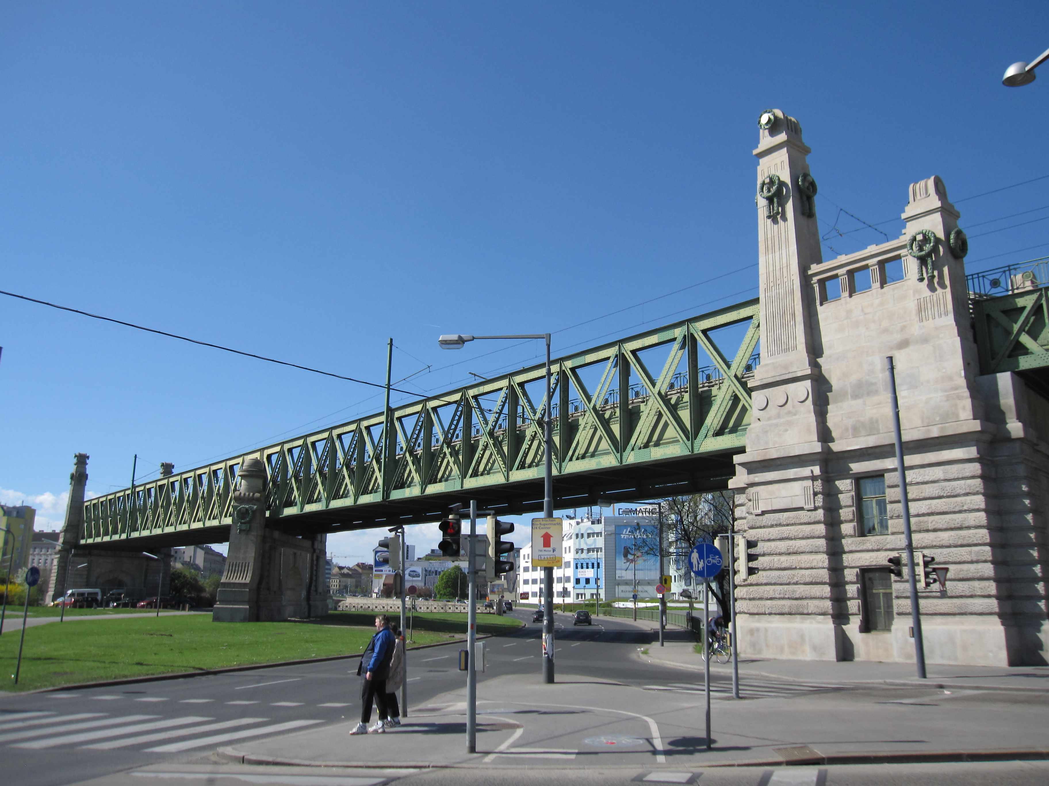 Brücke über die Zeile in Vienna, built by Otto Wagner.